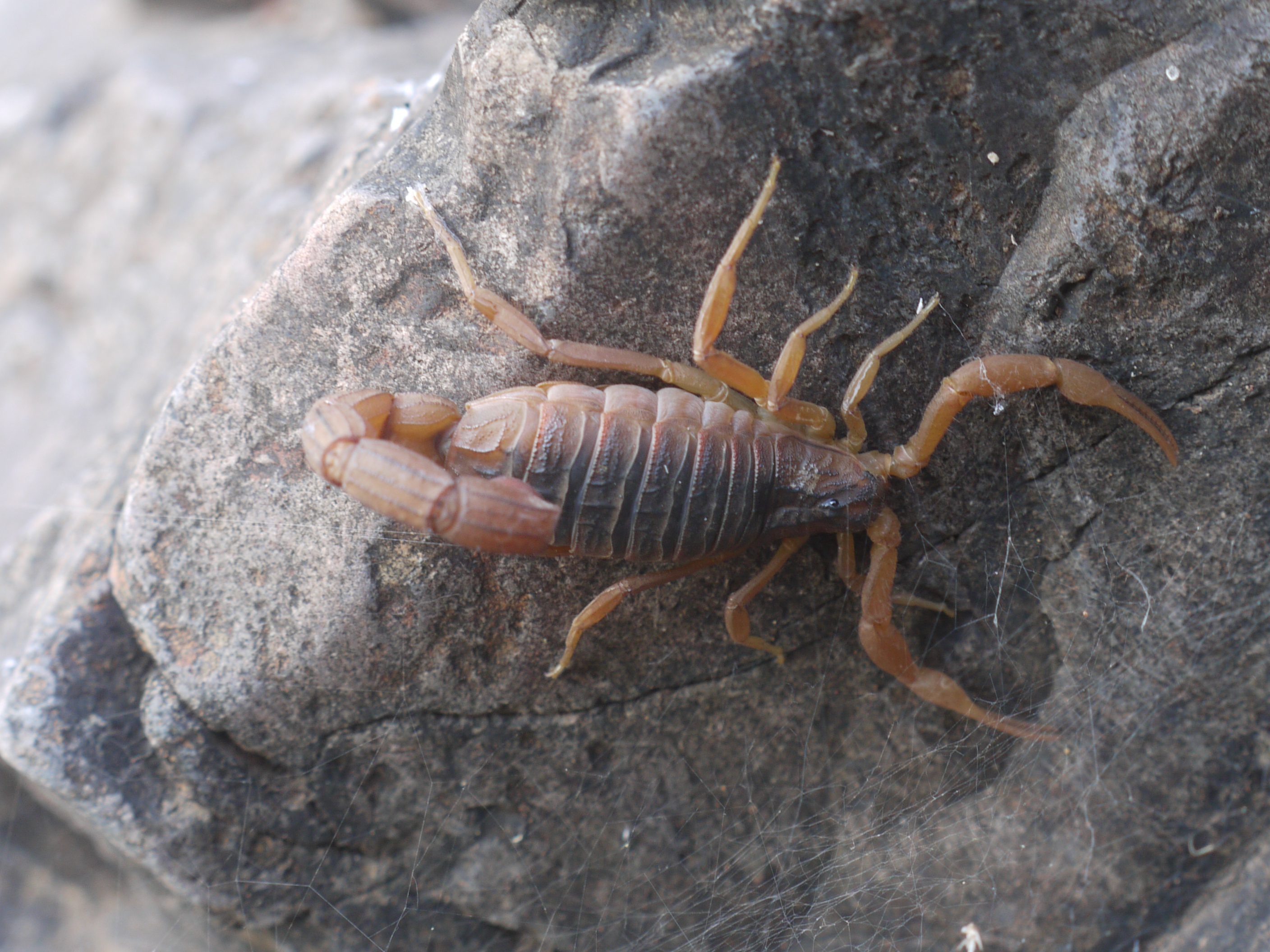 Scorpionidae » Mesobuthus tamulus ~ ~ ~ ~ ~ ~ ~ ~ ~ ~ ~ ~ ~ ~ ~ ~ ~ ~ ~ ~ ~ ~ ~ ~ ~ ~ ~ ~ ~ ~ ~ ~ ~ ~ ~ ~ ~ ~ ~ ~ ~ ~ ~ ~ ~ ~ ~ ~ ~ commonly known as: Indian red scorpion, Eastern Indian scorpion • Assamese: বিছা bicha • Bengali: বিচ্ছু bicchu, বিছা bicha, বৃশ্চিক brischika • Gujarati: વીંછી vichi • Danish: Indisk rød skorpion •